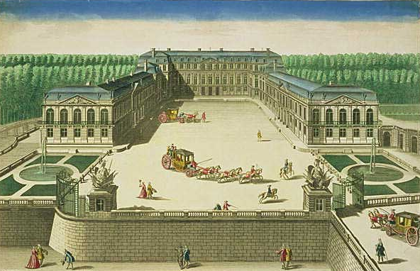 View of the Château de Saint Cloud, France, engraved by Antoine Aveline (1691-1743)